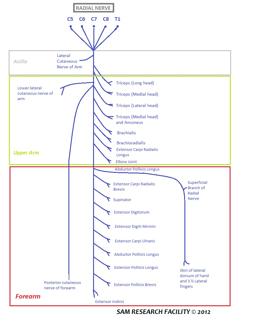 Schematic diagram showing extent of Radial Nerve